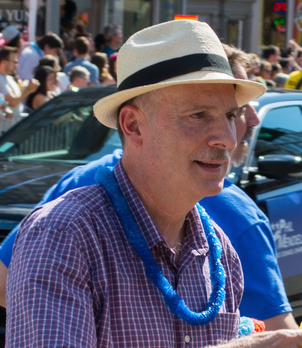 Phil Mendelson, Chairman of the Council of the District of Columbia, hands out necklaces and plastic leis to bystanders in the the Capital Pride gay pride parade on June 7, 2014, in Washington, D.C., in the United States.